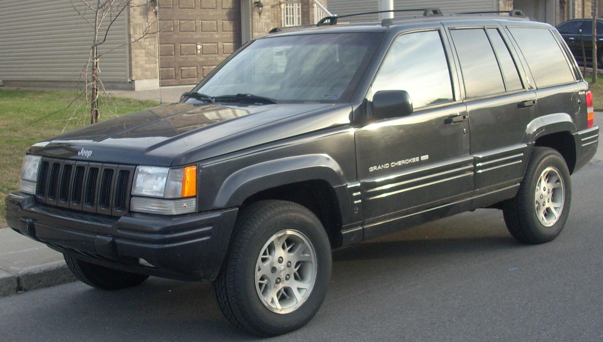 1996-1998 Jeep Grand Cherokee photographed in Montreal, Quebec, Canada.